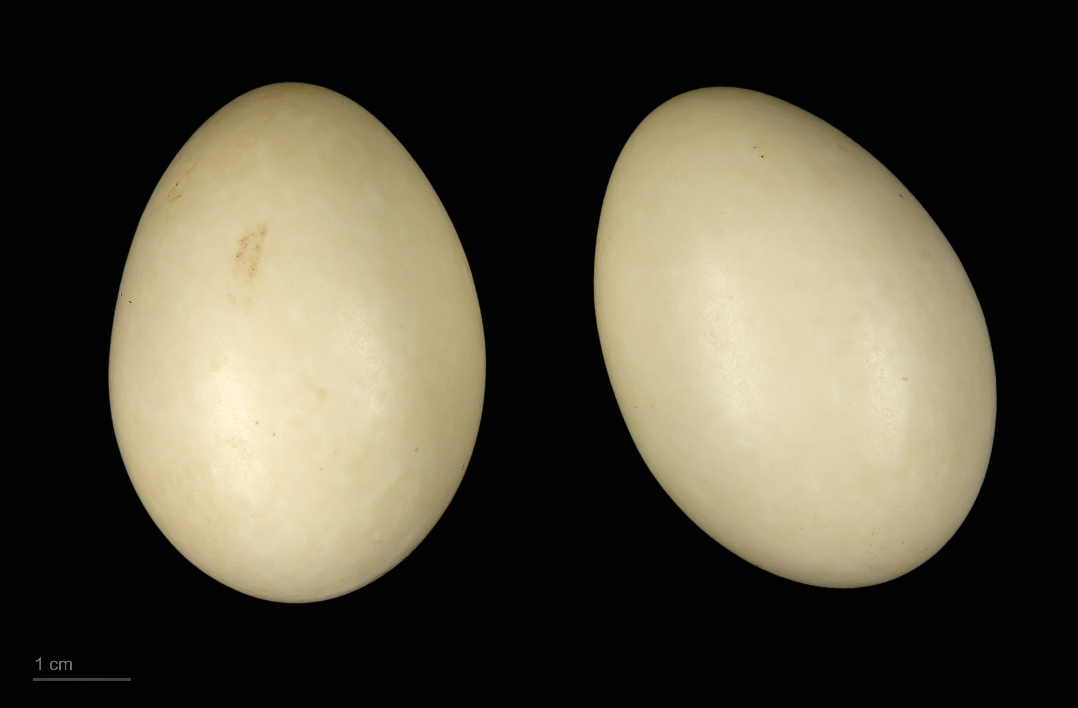 Egg of Brazilian teal Collection of Jacques Perrin de Brichambaut.